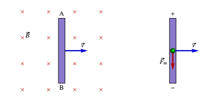 Barra cond